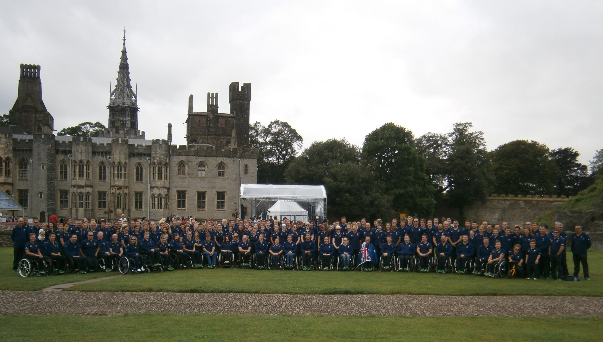 Members of the 2012 Australian Paralympic team in Cardiff Castle at the naming of the 2012 Australian Paralympic Team flagbearer